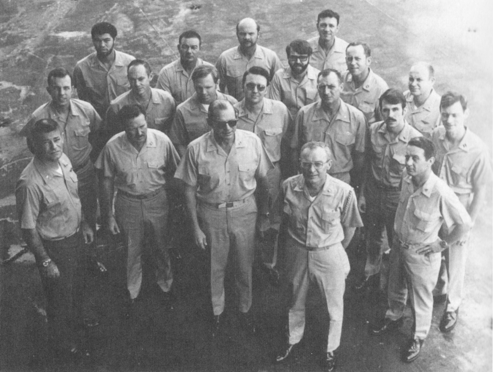 Commander Task Force 78 (Mine Countermeasures Force, United States Seventh Fleet) Rear Admiral Brian McCauley (front row, center) with his staff and other members of Task Force 78 on board his flagship, the USS Tripoli, during Operation End Sweep.